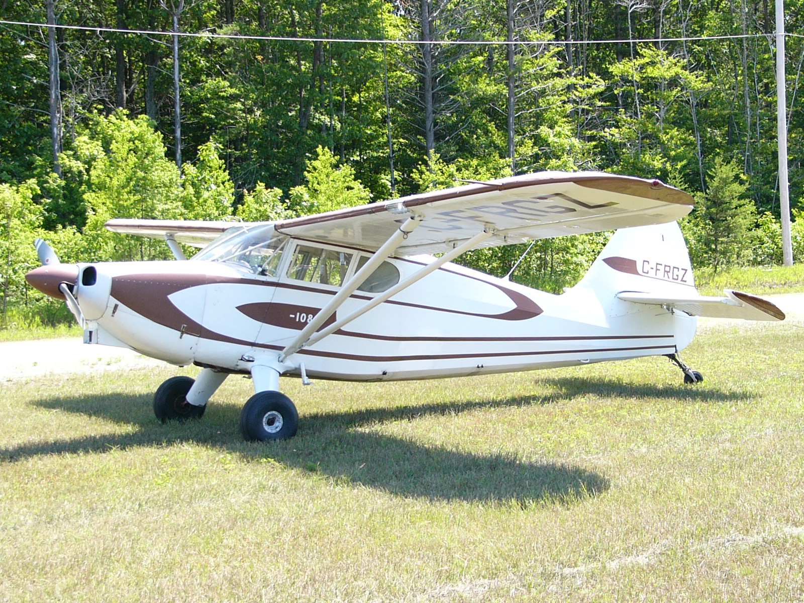 A Stinson 108 (not a 108-1, 2 or 3) at the Midland, Ontario, Canada Fly-in